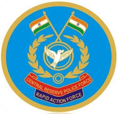 Rapid Action Force Logo